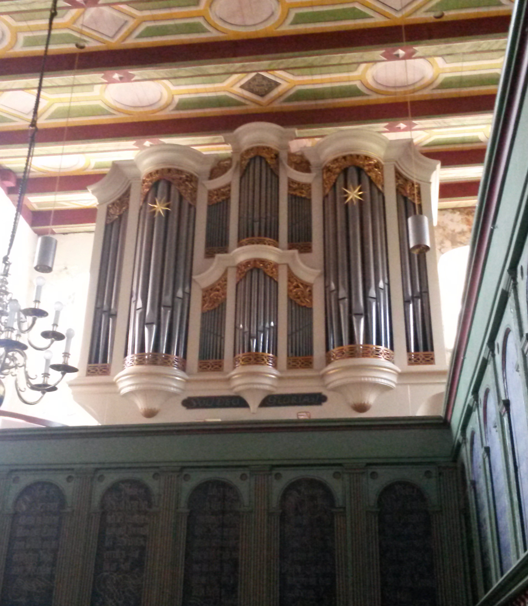 Organ of the church of Zetel, Germany